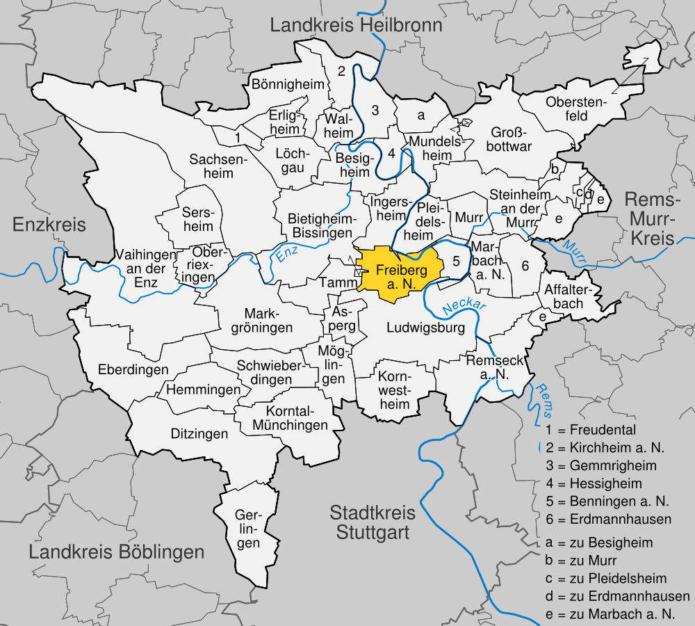 position of Freiberg am Neckar within distict of Ludwigsburg, Baden-Württemberg, Germany